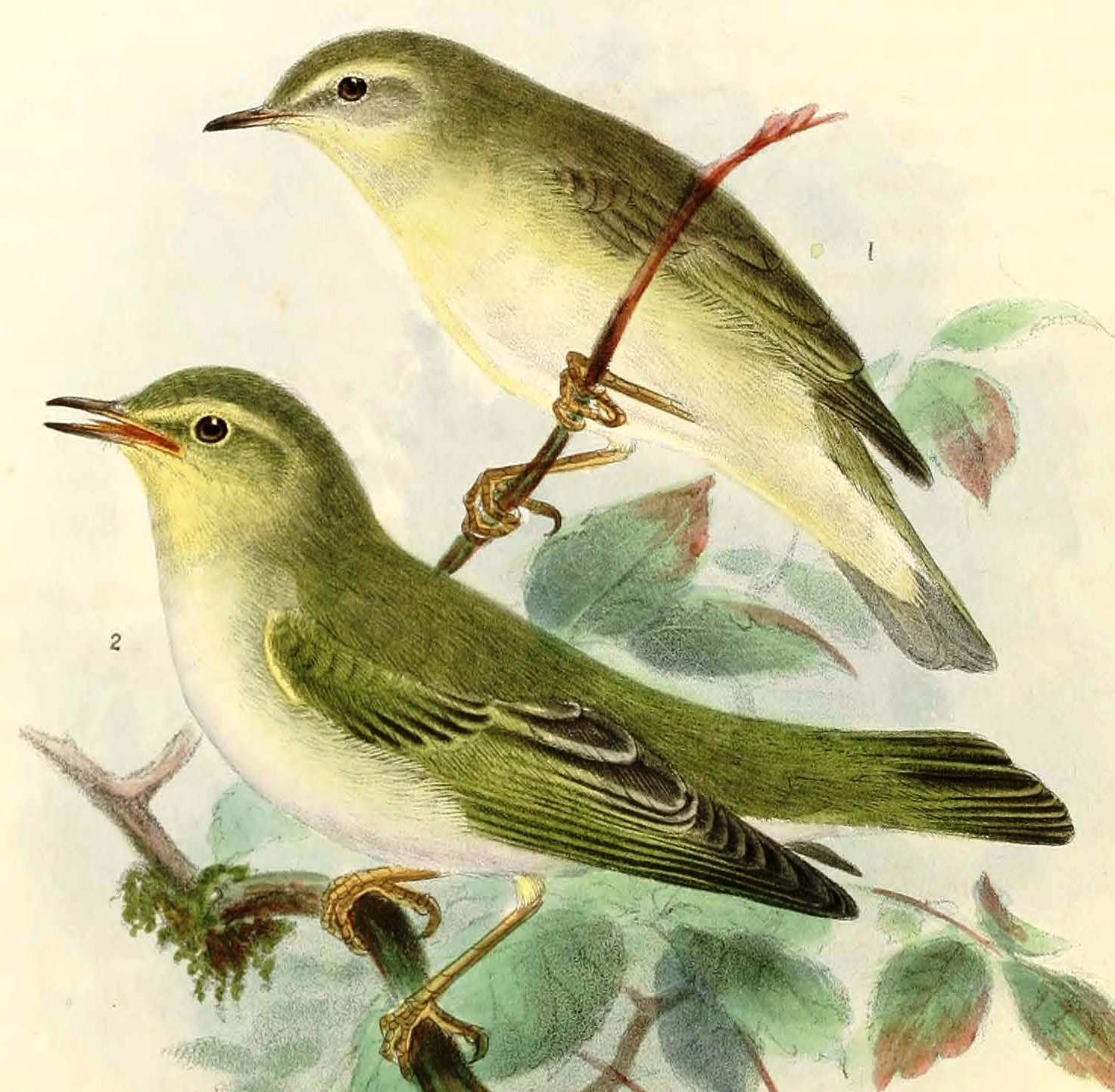 Phylloscopus bonelli (1) and Phylloscopus sibilatrix (2). H. E. Dresser